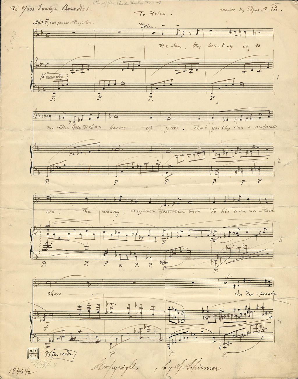 Poems, op. 15. To Helen (Sketches), by Charles Martin Loeffler [1]